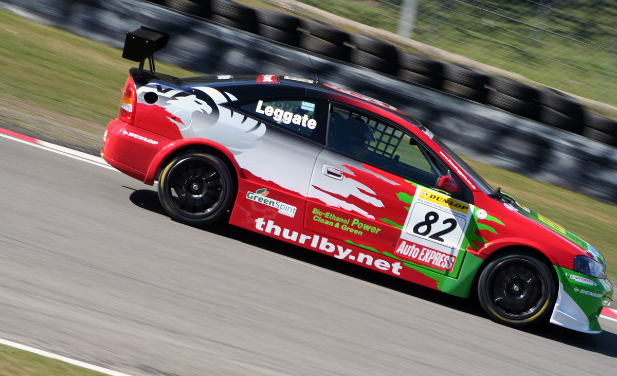 Fiona Leggate driving a Vauxhall at the Brands Hatch round of the 2006 British Touring Car Championship.